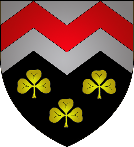 Coat of arms of the municipality of Medernach, Luxembourg (valid until 1 January 2012)